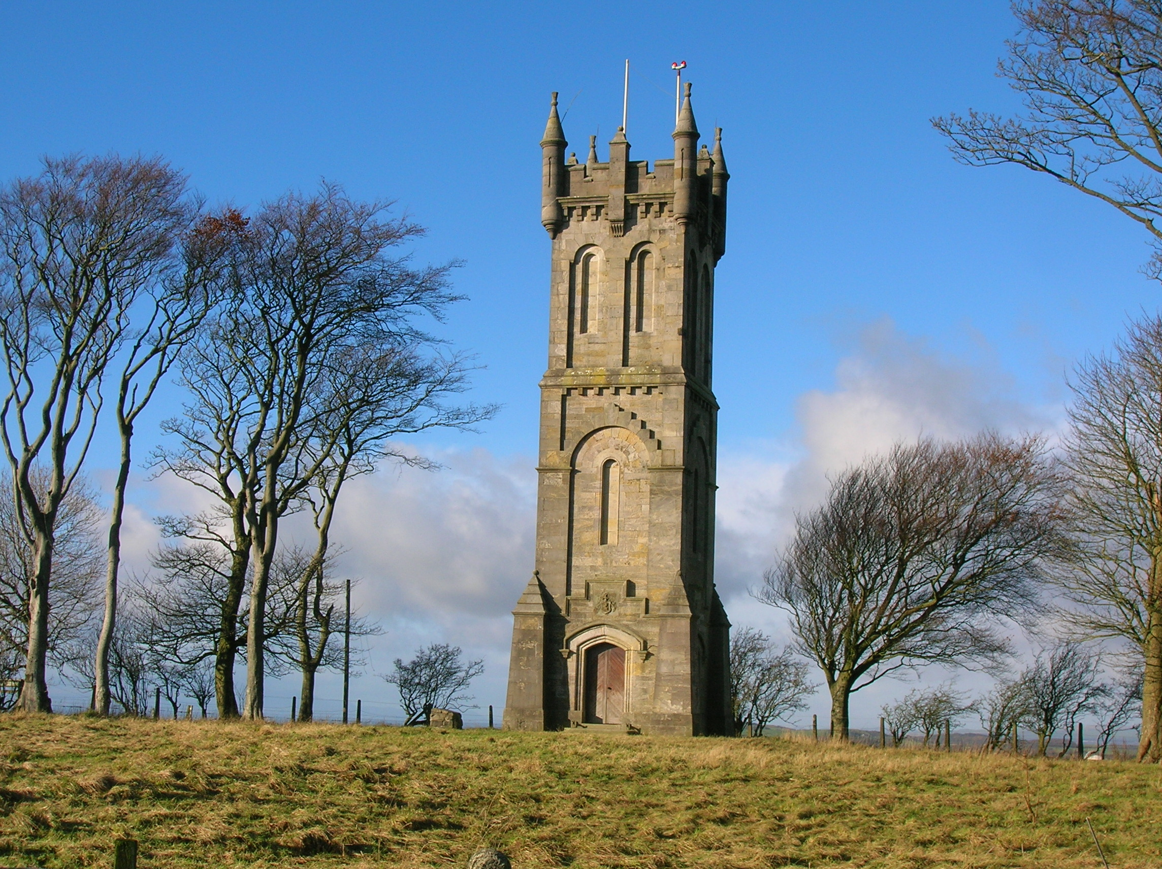 The Wallace Memorial Tower, Barnwiell Hill, Craigie, Ayrshire, Scotland